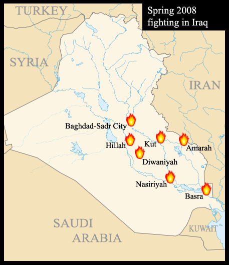 The current fighting in Iraq. I will update it if needed.